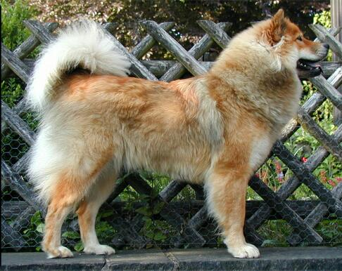 Eurasier dog